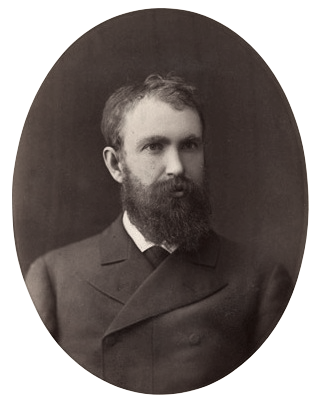 Russian writer Alexander Ertel.